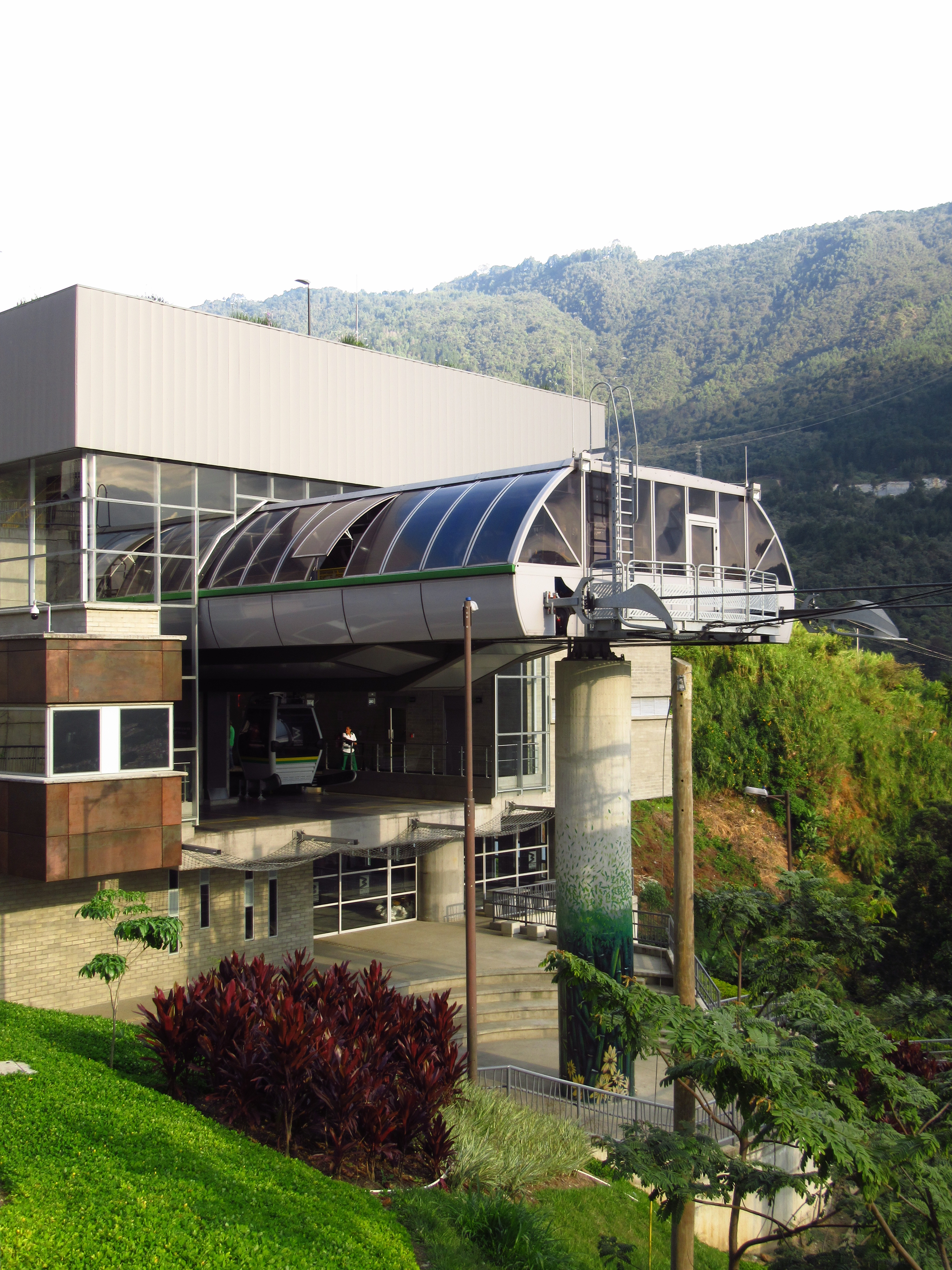 Estación Villa Sierra de la Línea H del Metrocable. Comunas de Medellín.